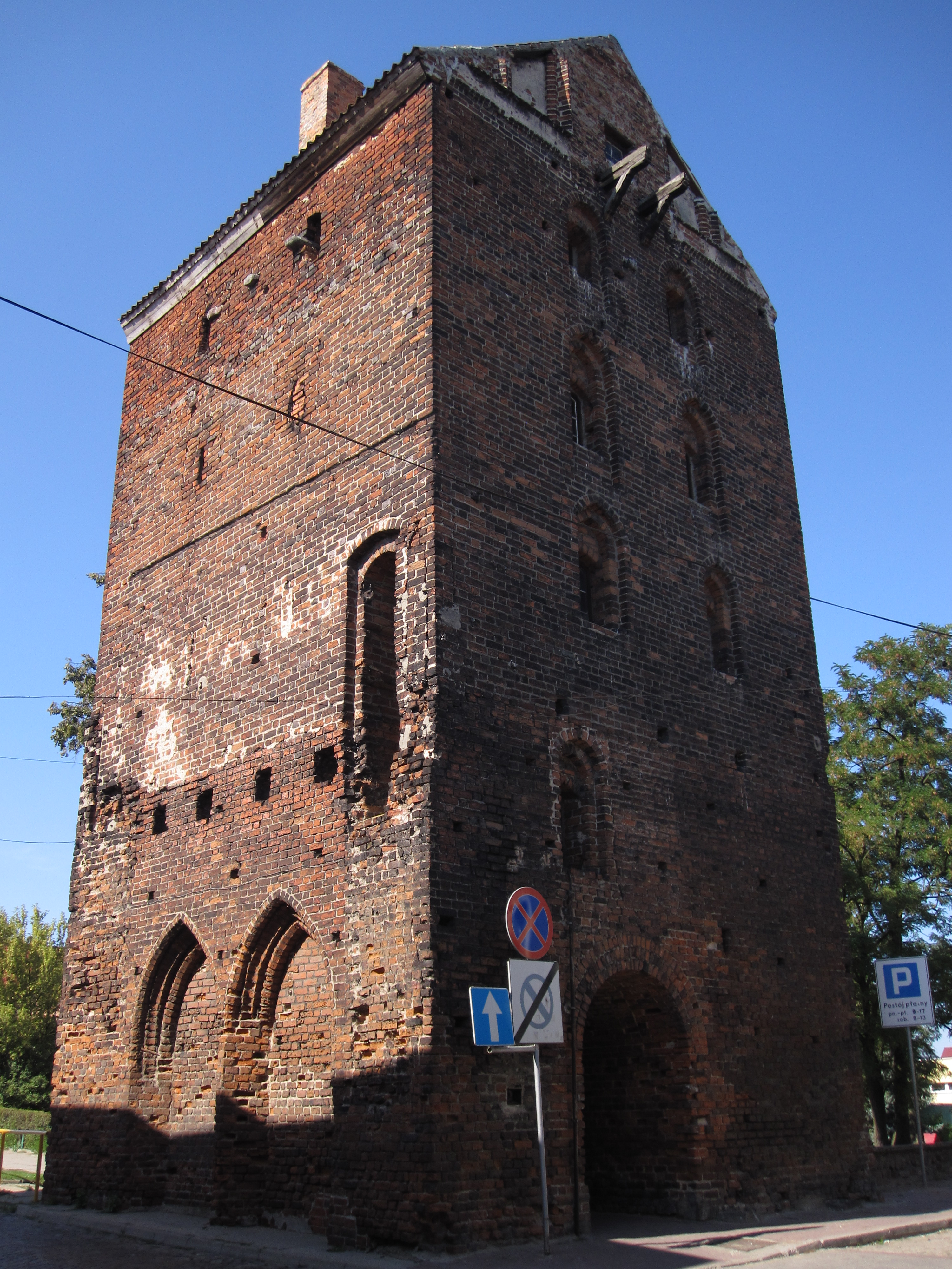 Nowe Miasto Lubawskie - Lubawska gate